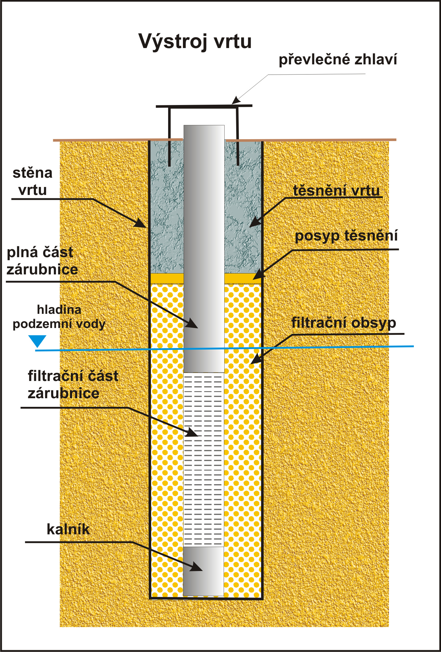 Casing of the well